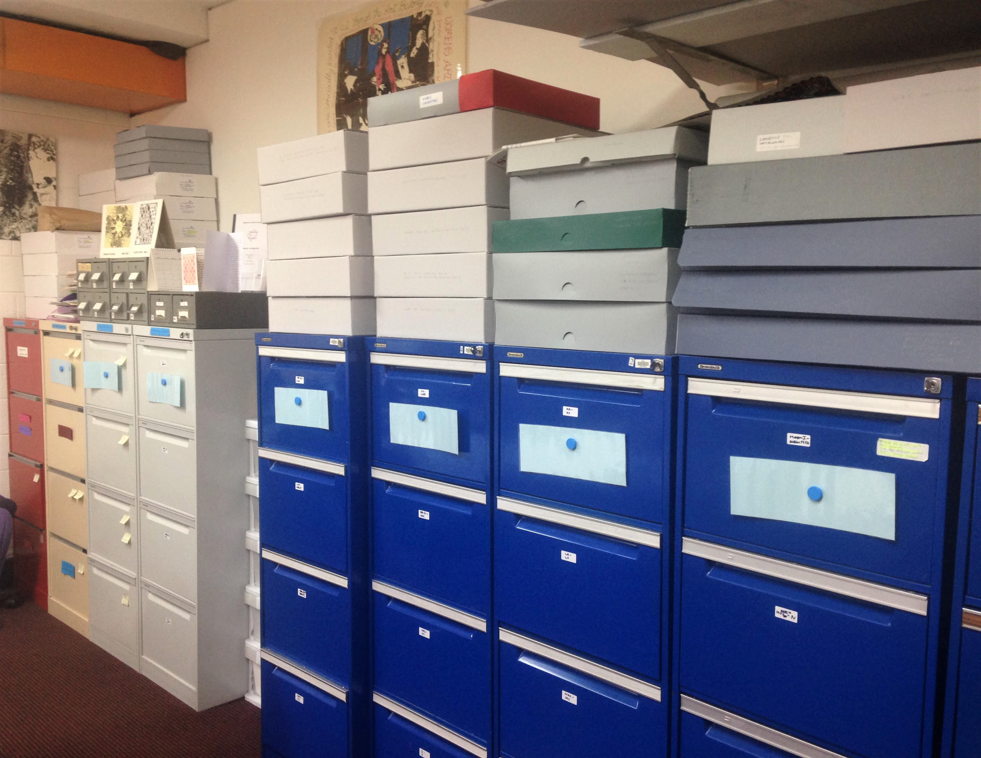 Filing cabinets at the Women's Art Register, Richmond Library, Victoria, Australia containing artists' files